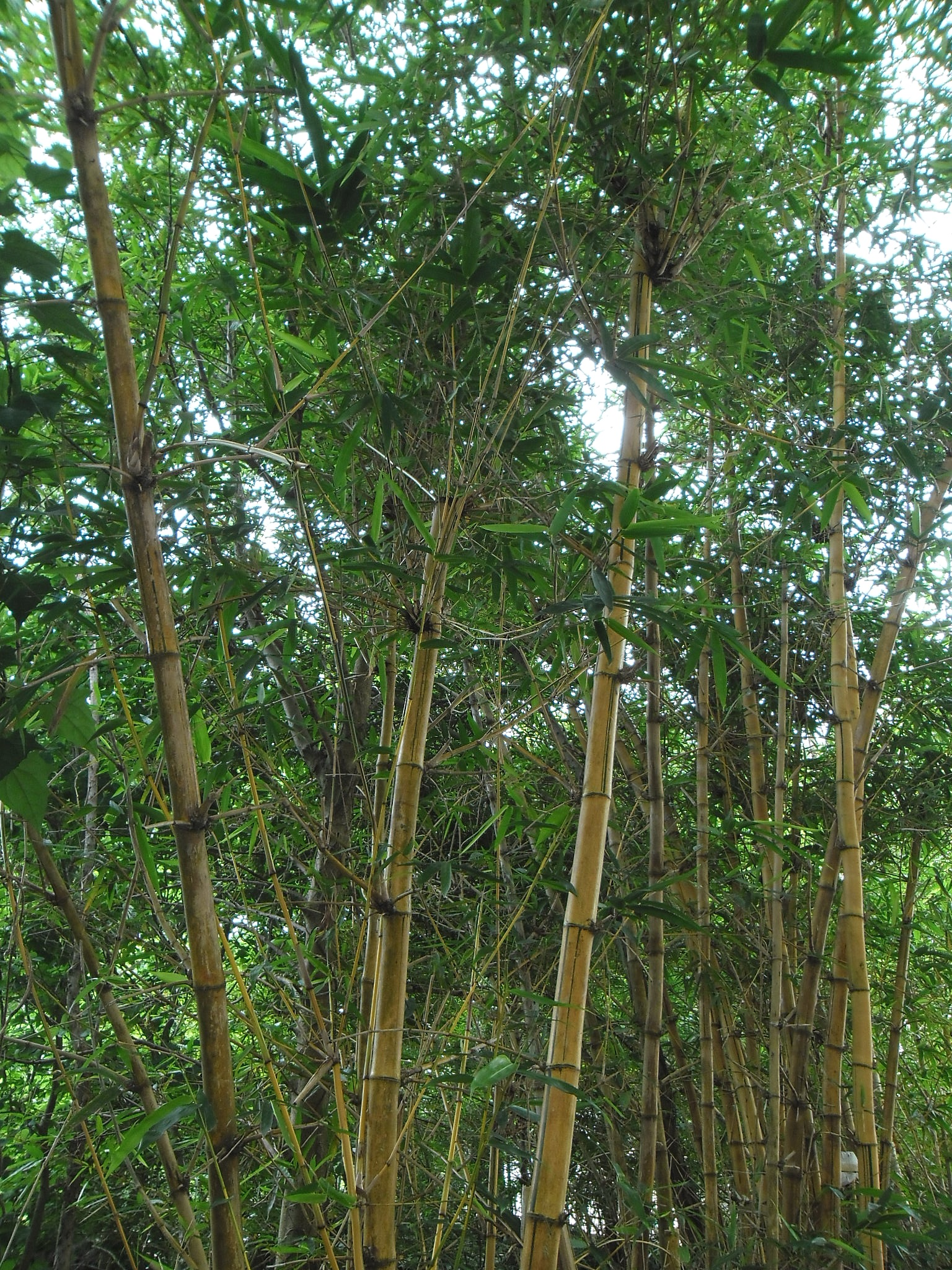 The Golden Bamboo(Bambusa vulgaris), in Hong Kong Island, Hong Kong.